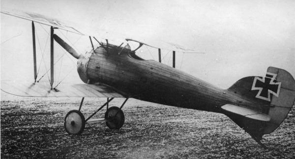 LFG Roland D.IX